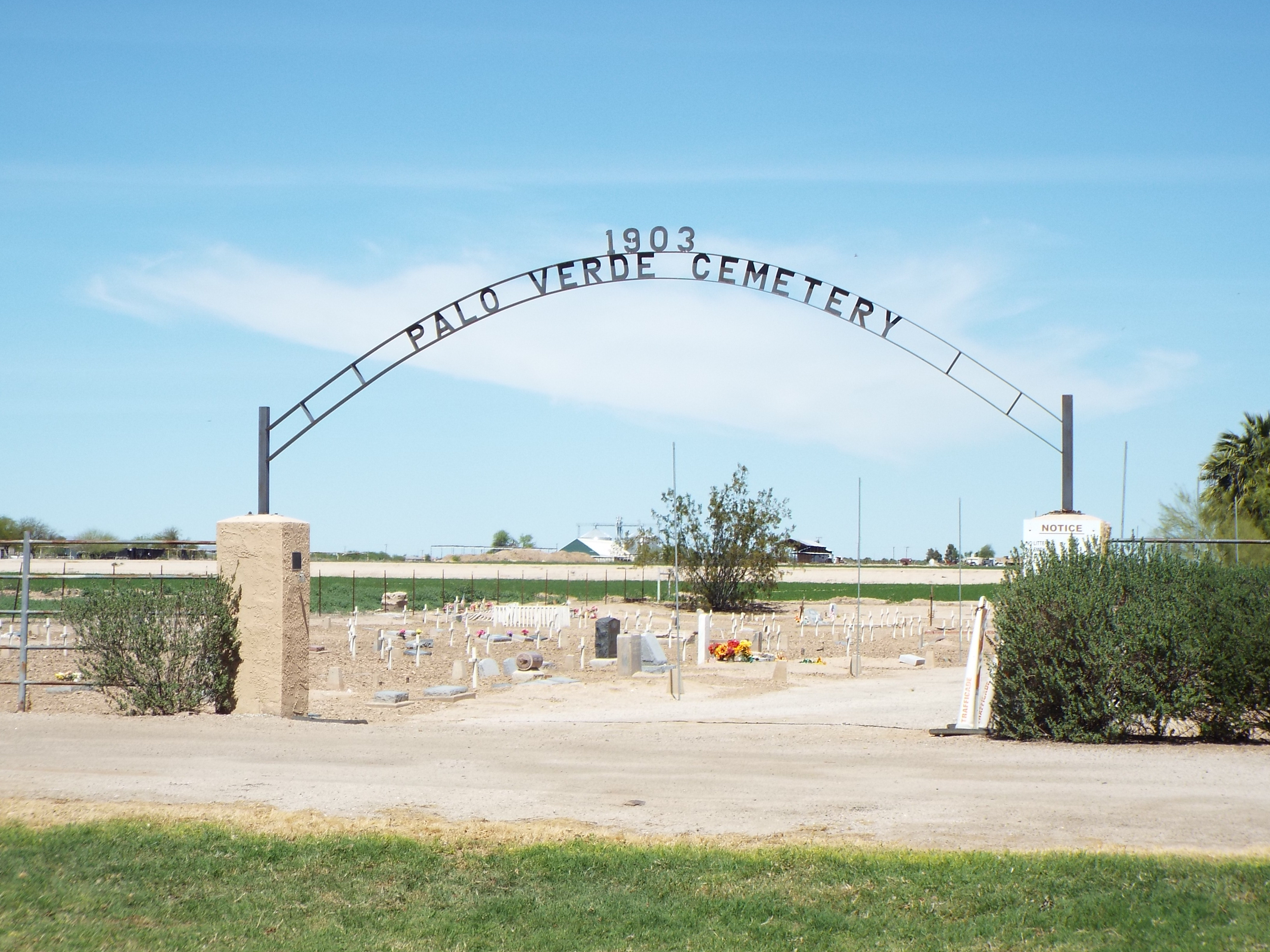 The Palo Verde Cemetery was established in 1903 and is located on 29600 West Old Hwy. 80 in Buckeye, Arizona. Listed as historical by the Buckeye Valley Historical and Archaeological Society.